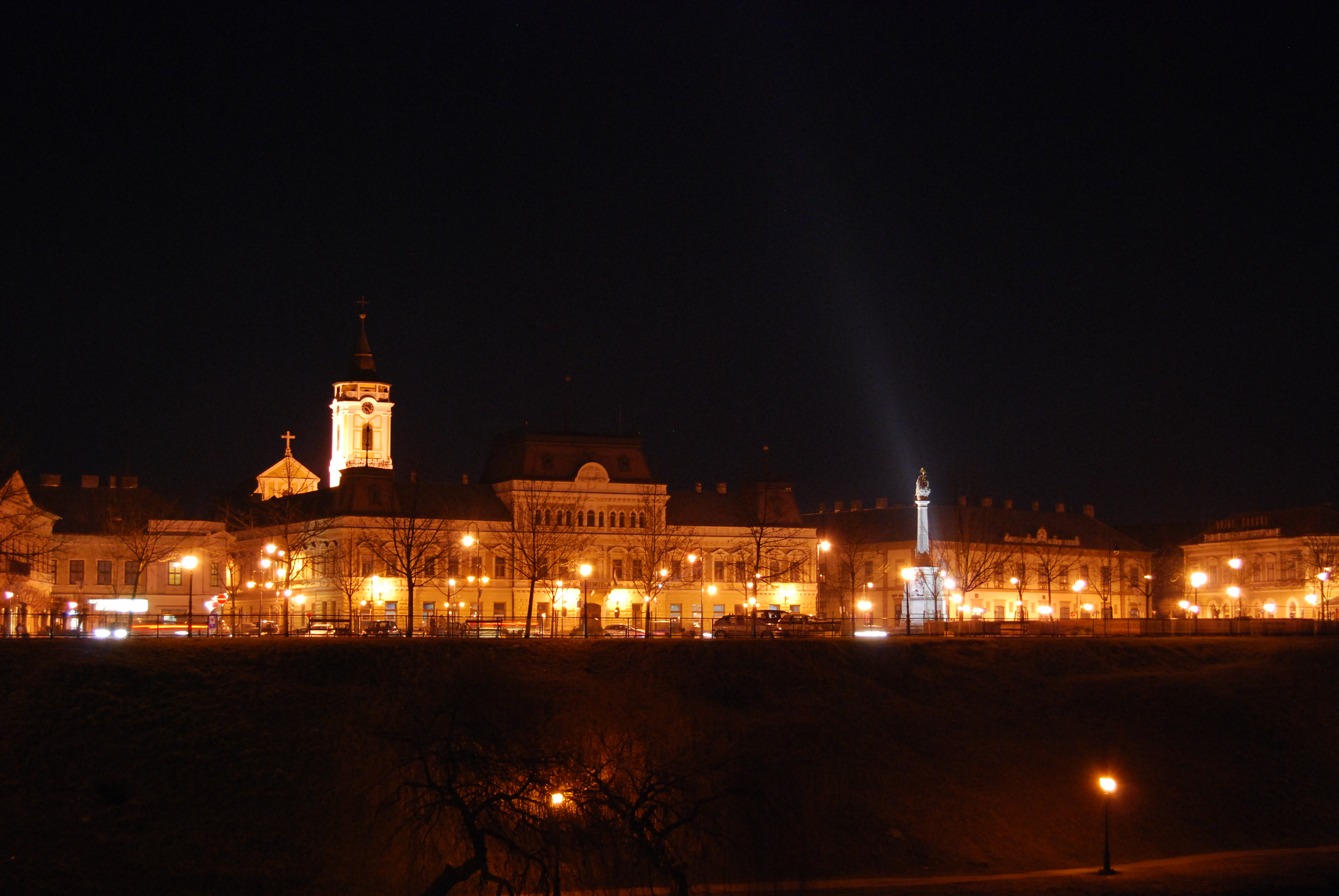 Baja town center at night, Hungary